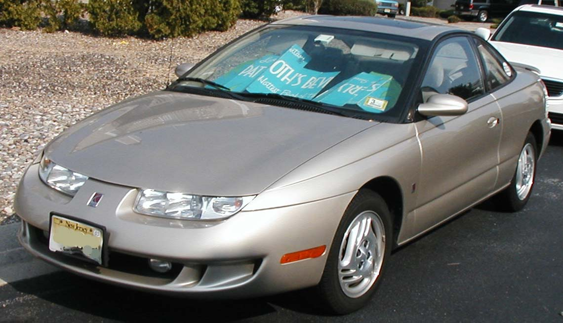 1997-2002 Saturn SC photographed in USA.